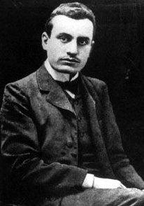 Benito Mussolini